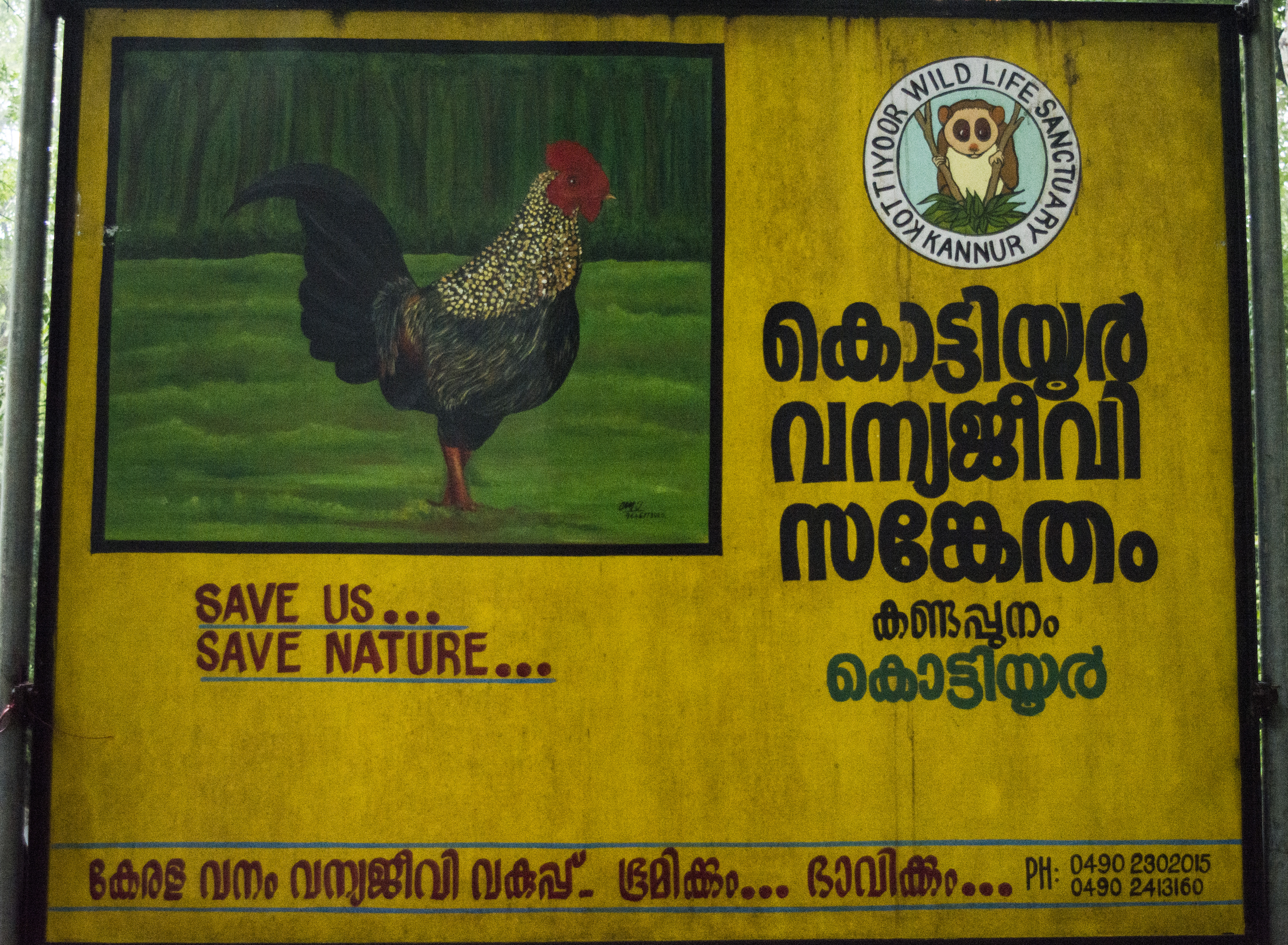 sign board of Kottiyoor Wildlife Sanctuary